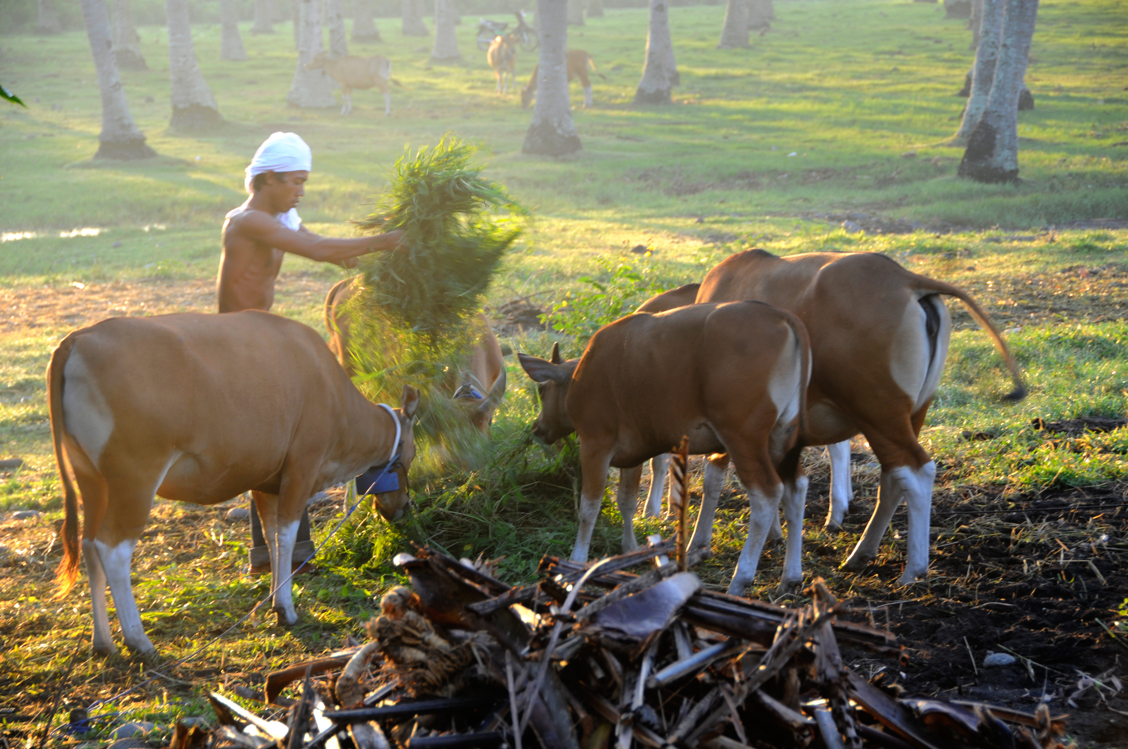 A man feeds his cattle (Bali cattle a.k.a. Banteng) near Medewi beach village in Bali.